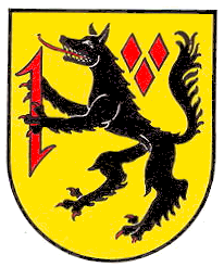 Coat of arms of Wolfstein